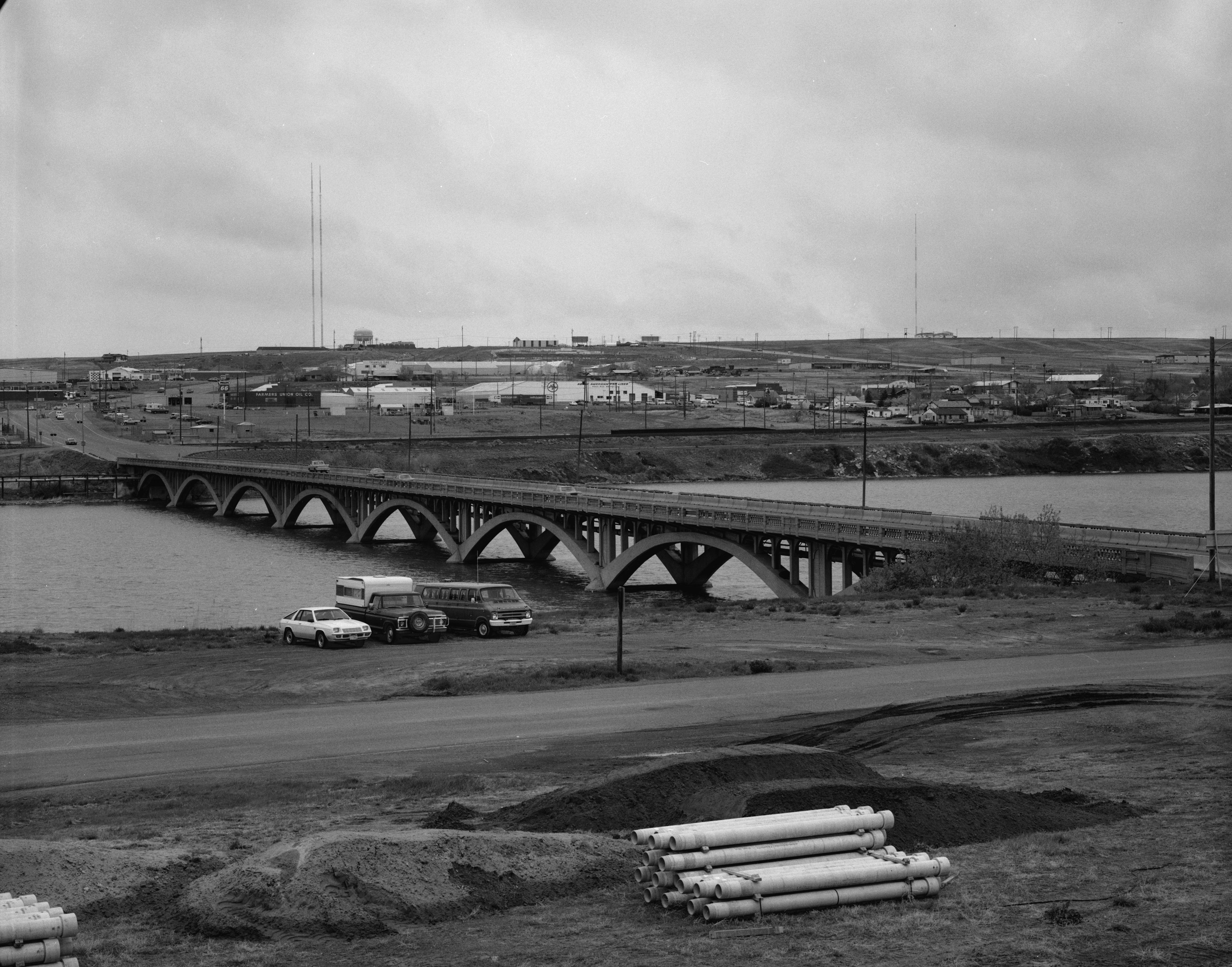 Tenth Street Bridge, Spanning Missouri River, Great Falls (Cascade County, Montana)